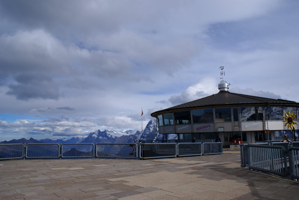 Piz Gloria, Restaurant on top of the Schilthorn in Switzerland - with Eiger in the background